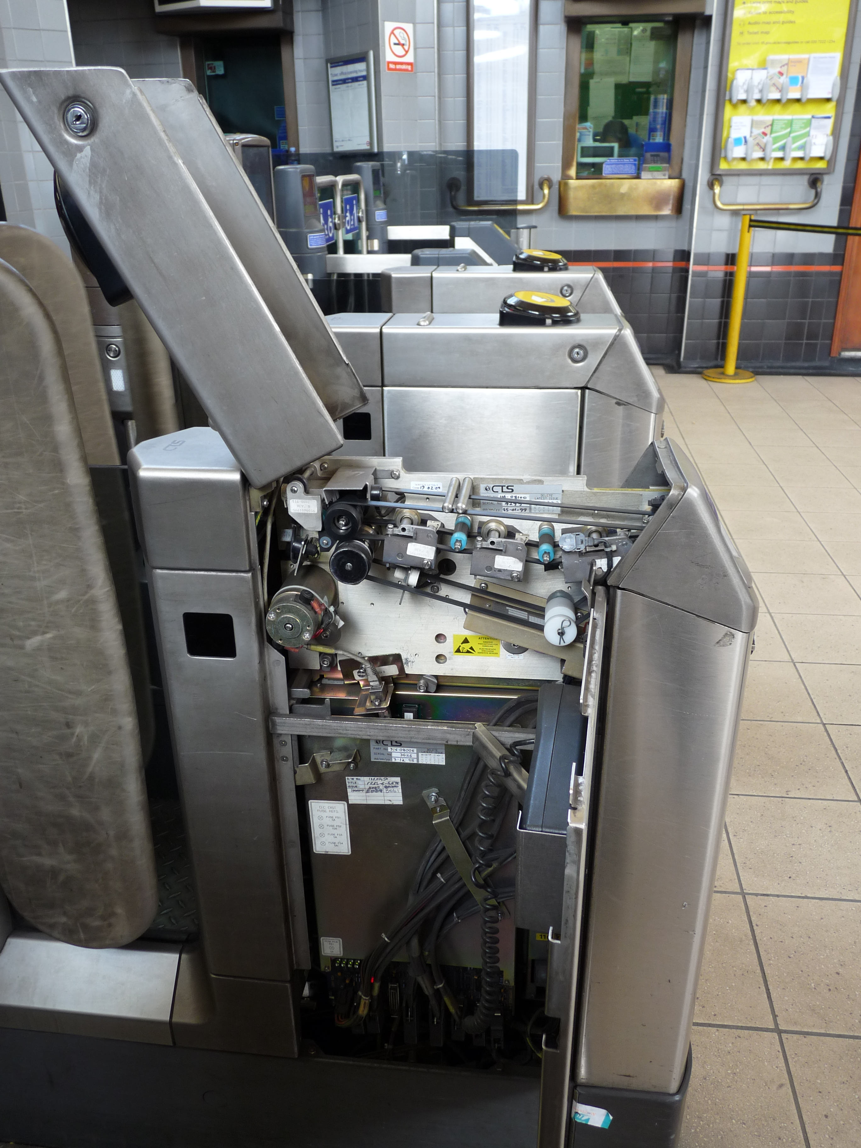 A standard London Underground ticket gate with the cover open, showing the mechanism inside. Photographed at Bounds Green